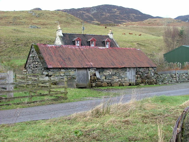 Croft at the west end of Upper Ardelve, Highland, Scotland